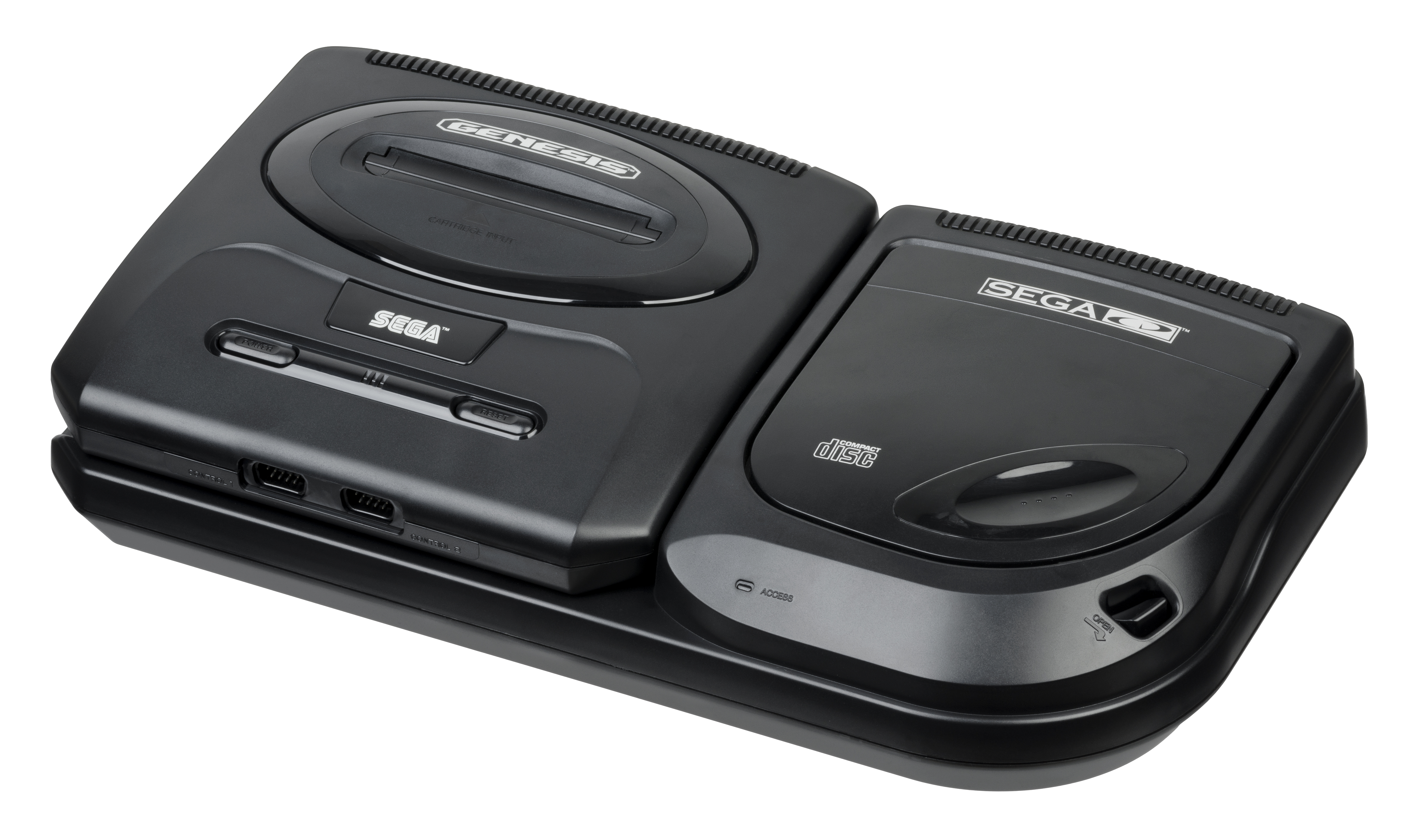 A model 2 Sega CD. This is a CD-ROM drive add-on that was released by Sega for its Genesis/Mega Drive video game console in 1991.